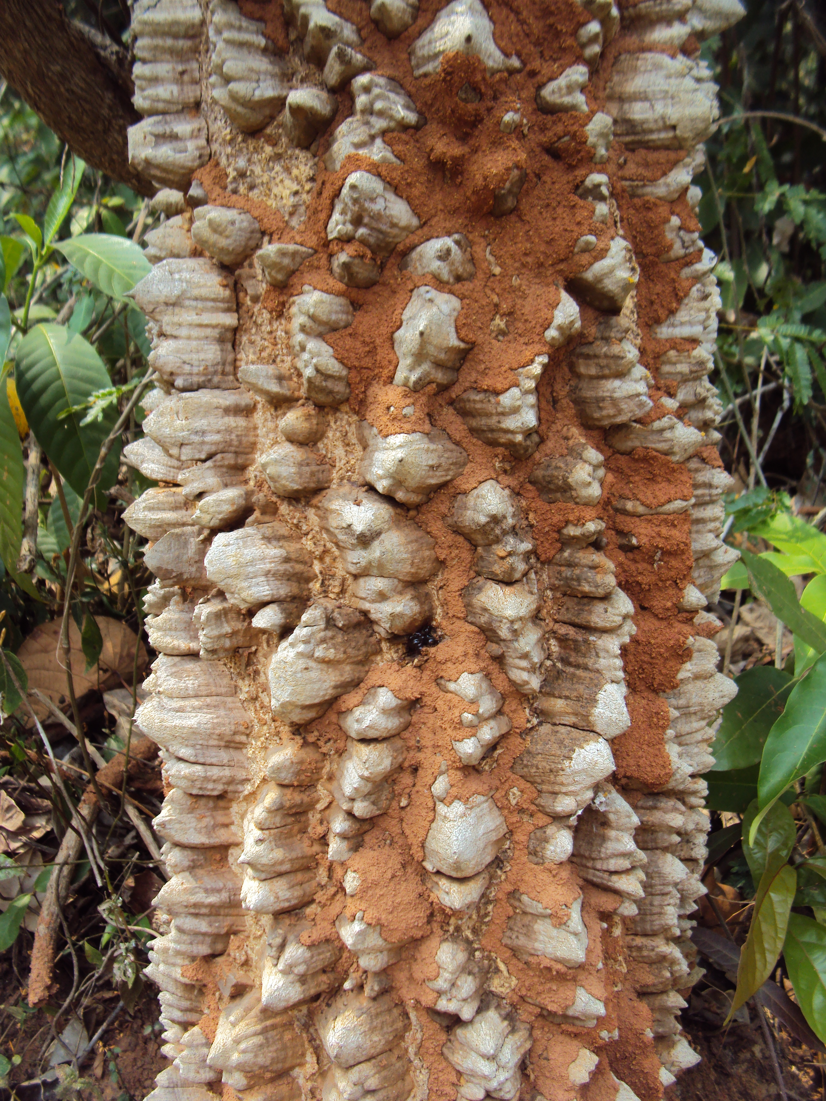 Zanthoxylum rhetsa bark